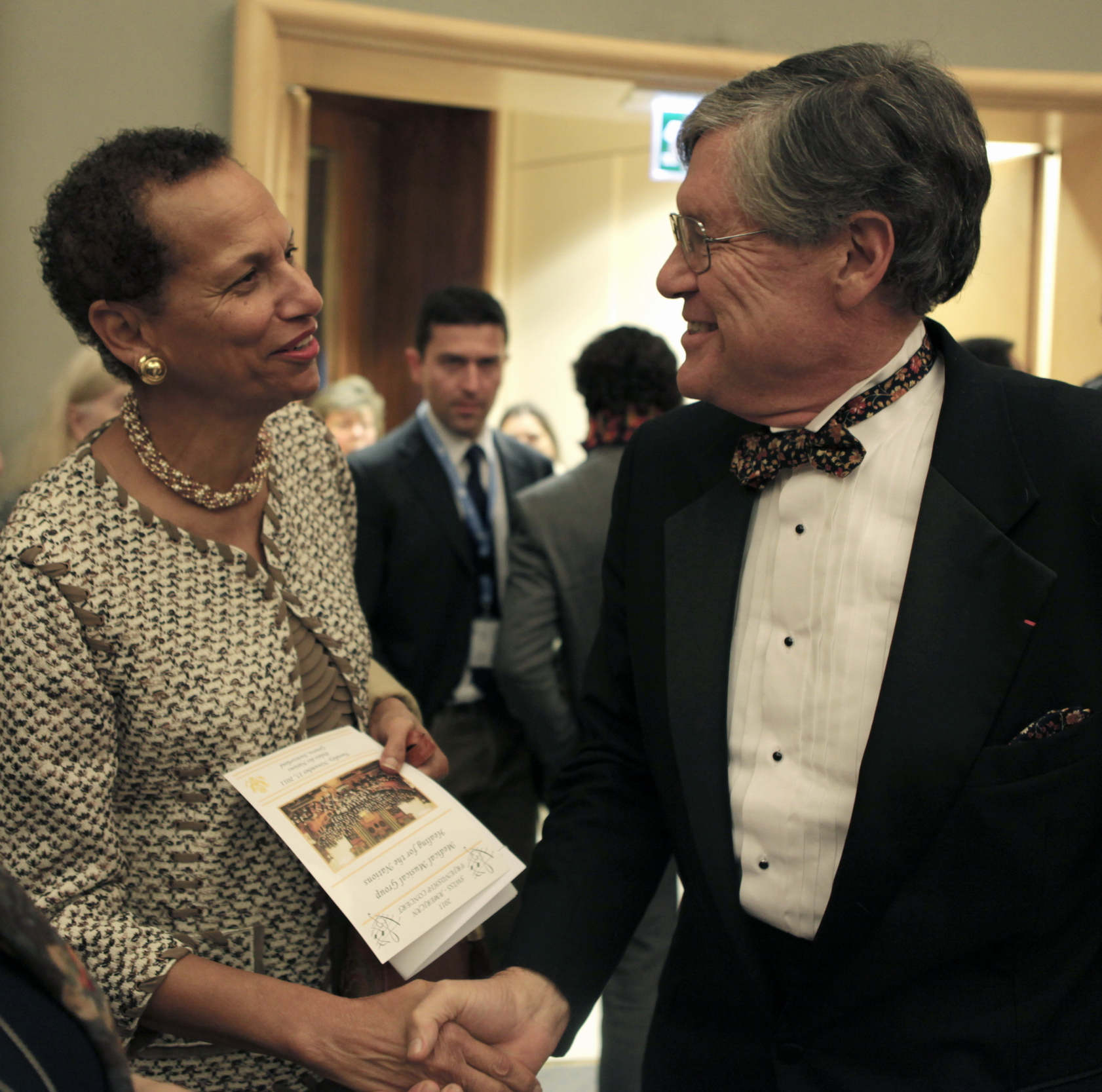 Ambassador Betty E. King, U.S. Permanent Representative to the United Nations in Geneva, with Jim Bittermann, CNN's Senior European Correspondent based in Paris. On November 15, the U.S. Mission organized a classical musical concert by Medical Musical Group at the United Nations Palais des Nations in Geneva Switzerland. Medical Musical Group (MMG) is a chorale and orchestra group comprised of medical professionals, who have performed in London, Berlin and Paris in recent years as part of their “Healing for the Nations” concert series. The theme of the concert was “Tous Pour Un, Un Pour Tous.” MMG collaborated with local choirs and orchestras for the event, which was also sponsored by the Swiss Mission. The concert program emceed by Jim Bitterman, CNN, and Victoria Morgan, France 24, included classical pieces such as Beethoven’s Choral Fantasy in addition to American classics like John Philip Sousa’s Stars and Stripes, and featured appearances by soloists including Michele Tiziano and Elisa Belmonte. U.S. Mission Photo by Eric Bridiers